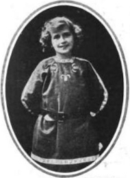 A white girl, smiling, wearing a long-sleeved tunic or dress; the photograph is in an oval frame.